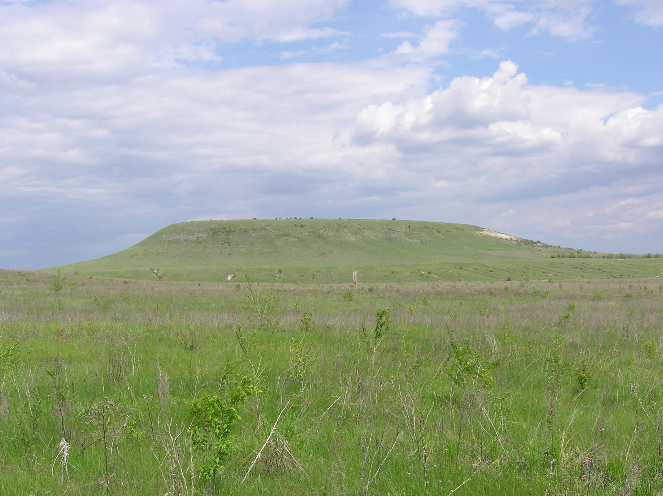 "Budanova Gora" butte located in about 18 km to south-west from the city of Saratov, Russia. Absolute elevation: 236 m.